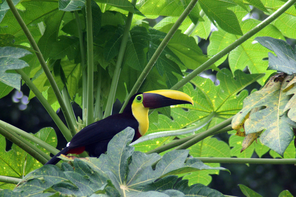 Chestnut-mandibled Toucan, Swainson's Toucan